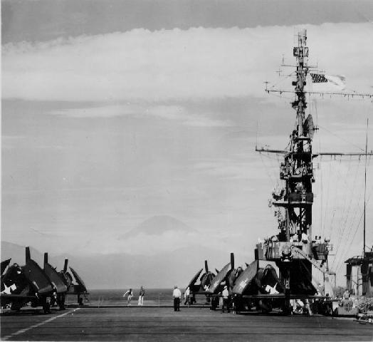 In the background you can see Mt. Fuji in this image looking forward on the USS Cowpens (CVL-25) flight deck. Picture taken in Tokyo Bay.